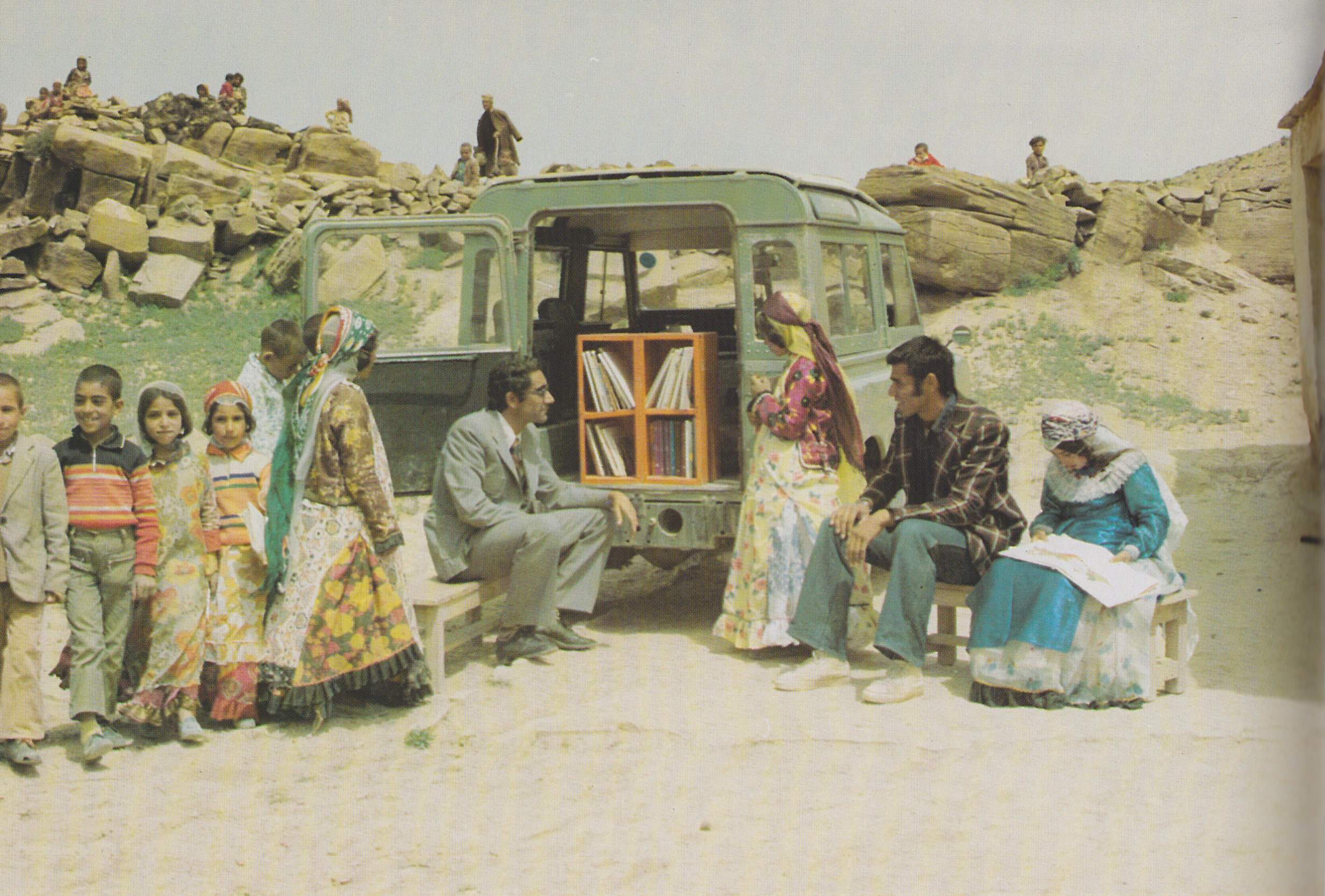 A photo of mobile library taken in Kurdistan province, Iran